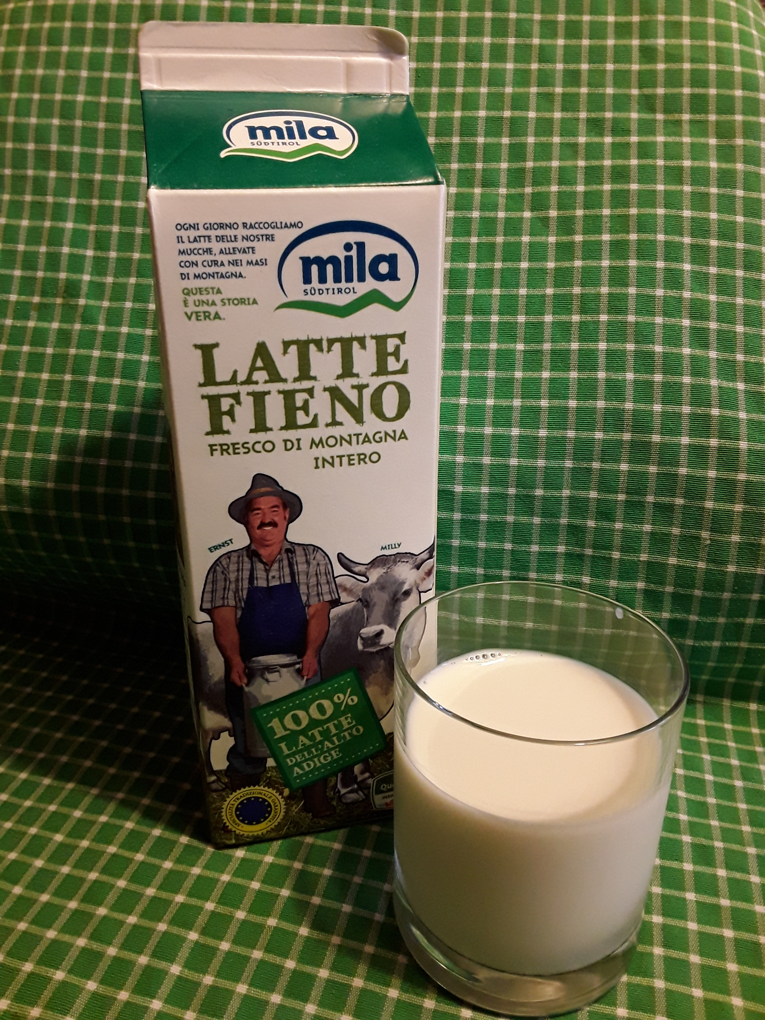 Haymilk